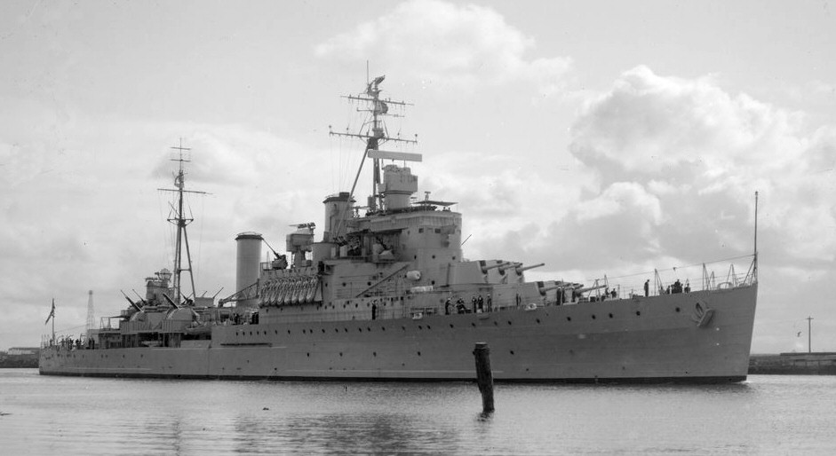 HMS Bermuda